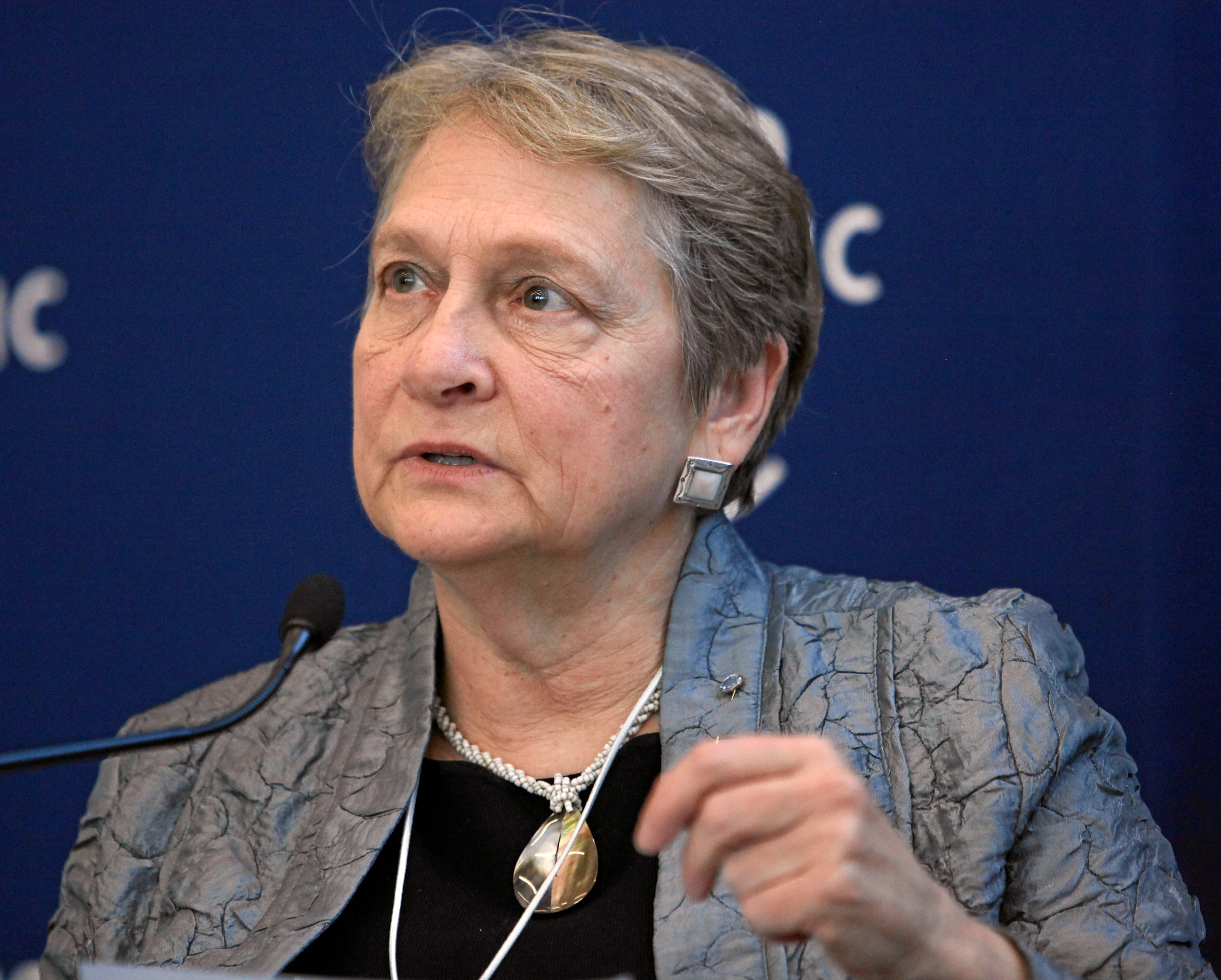 DAVOS/SWITZERLAND, 28JAN12 - Laura Liswood, Secretary-General, Council of Women World Leaders, USA; Global Agenda Council on Women's Empowerment is captured during the session 'Leadership Models across Generations' at the Annual Meeting 2012 of the World Economic Forum at the congress centre in Davos, Switzerland, January 28, 2012. Copyright by World Economic Forum by Monika Flueckiger